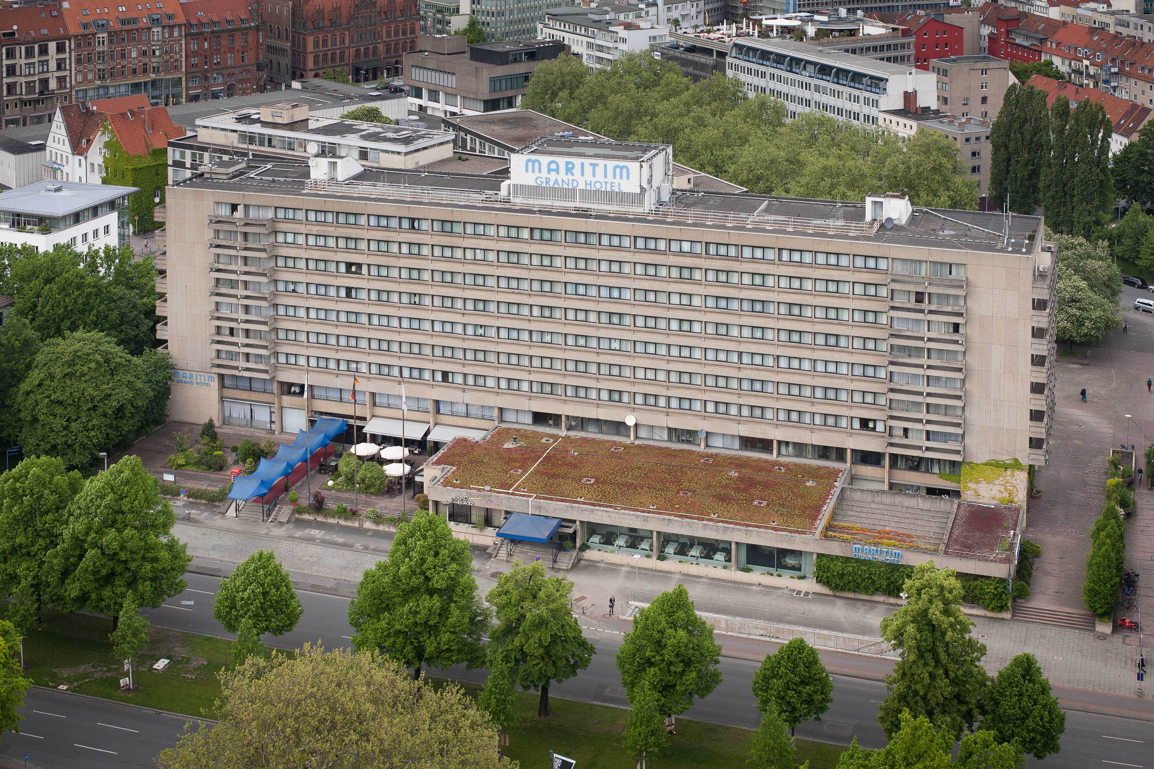 Maritim grand hotel located at Friedrichswall in Hanover, Germany.